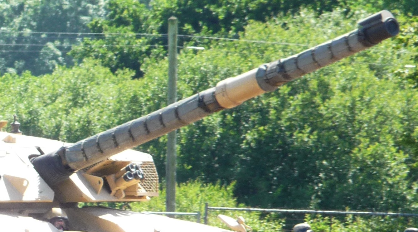 Royal Ordnance L11A5 gun of British Challenger 1 tank.